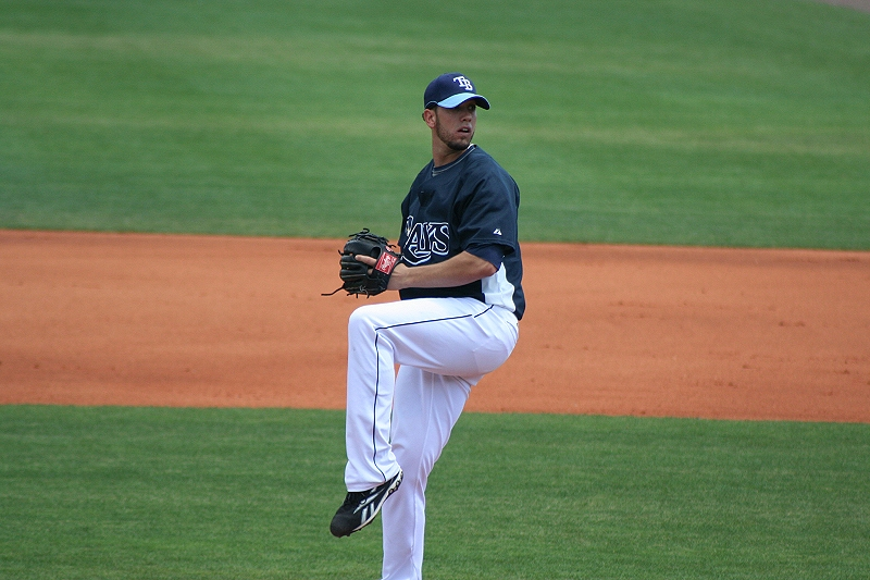 Description James Shields of the Tampa Bay Rays. DateSourceI created this work entirely by myself.AuthorHappyHarvick2962 (talk) 01:17, 2 April 2009 . . HappyHarvick2962 . . 800×533 (294 KB) James Shields of the Tampa Bay Rays.